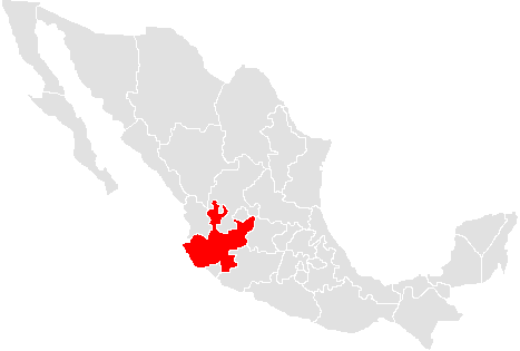 A map of the Mexican state of jalisco made by me